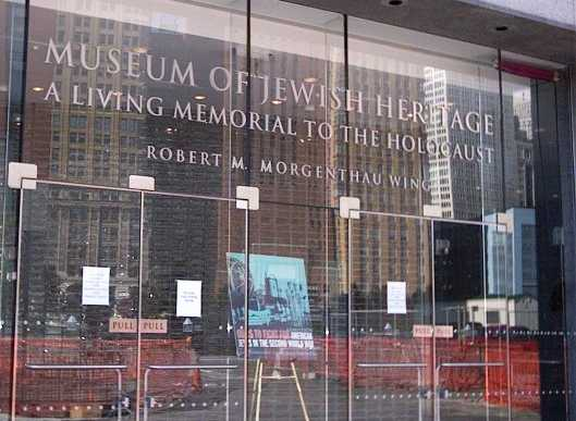 photographed by Mariel Caliandro